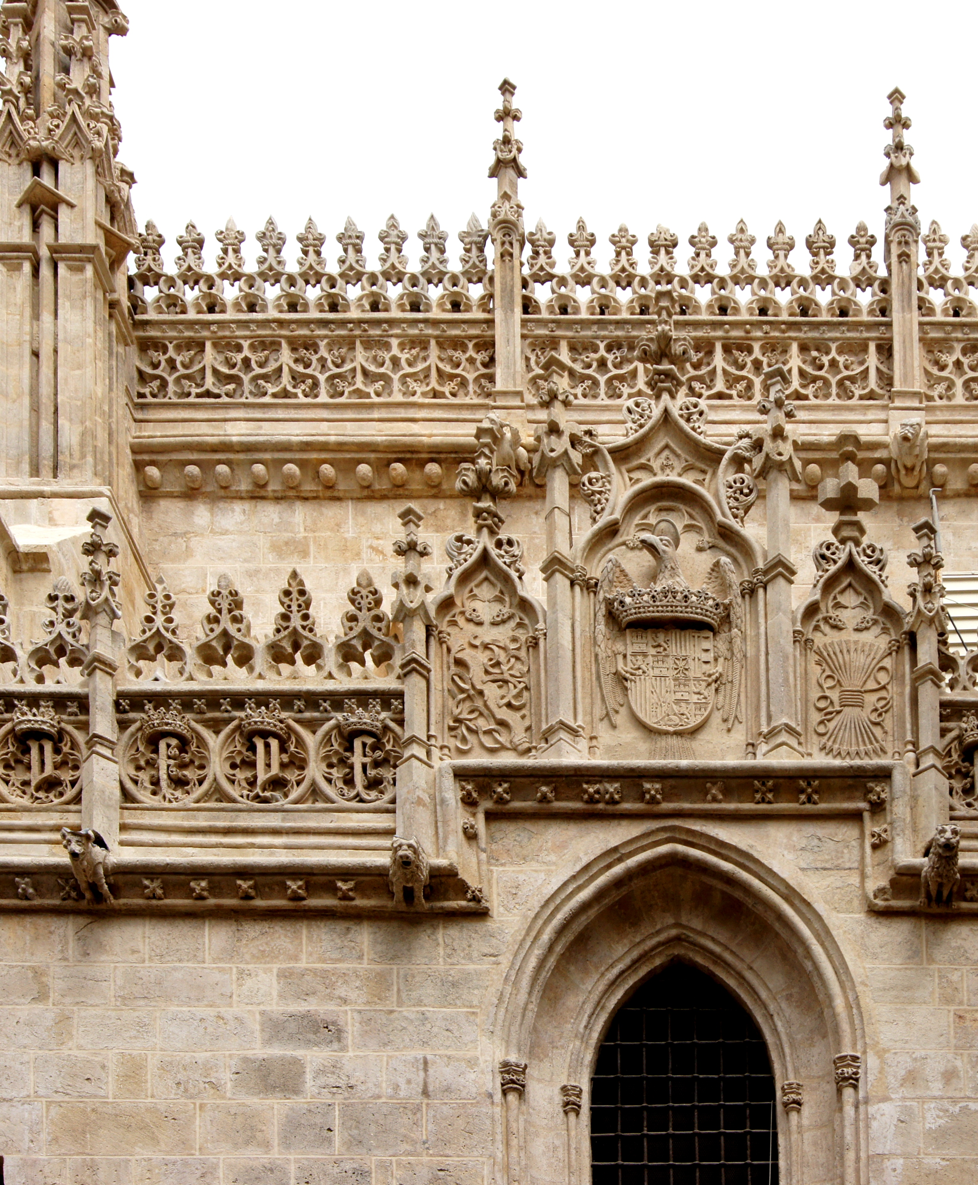 Capilla real de Granada, Spain. Symbols and coat of arms of Ferdinand of Aragon and Isabella of Castille, Los Reyes Catolicos, buried in this church.